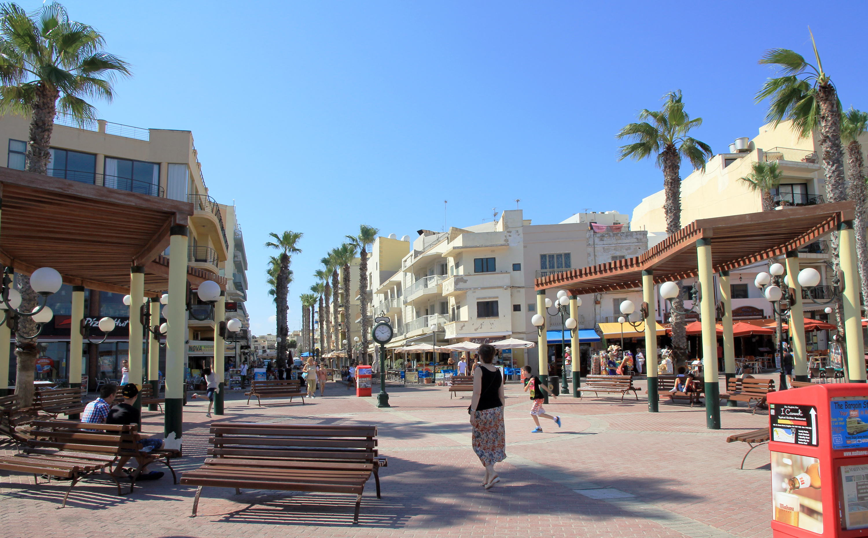 Square Misraħ il-Bajja (Buġibba square), Bugibba, St. Paul's Bay, Malta